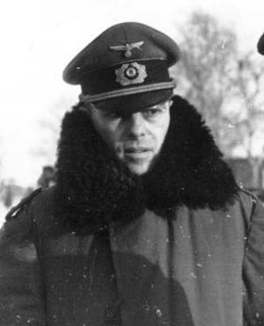 Major General Hans Röttiger in Russia during 1941